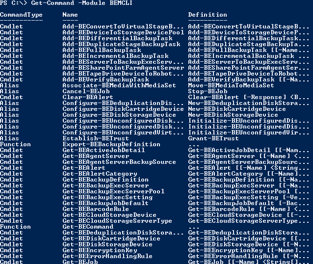 Backup Exec Command Line Interface: BEMCLI